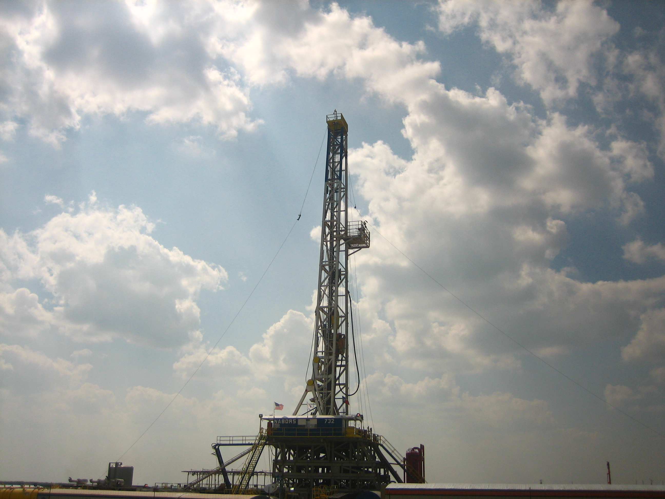 I took photo on July 30, 2008.Billy Hathorn (talk) 00:23, 8 September 2008 (UTC)